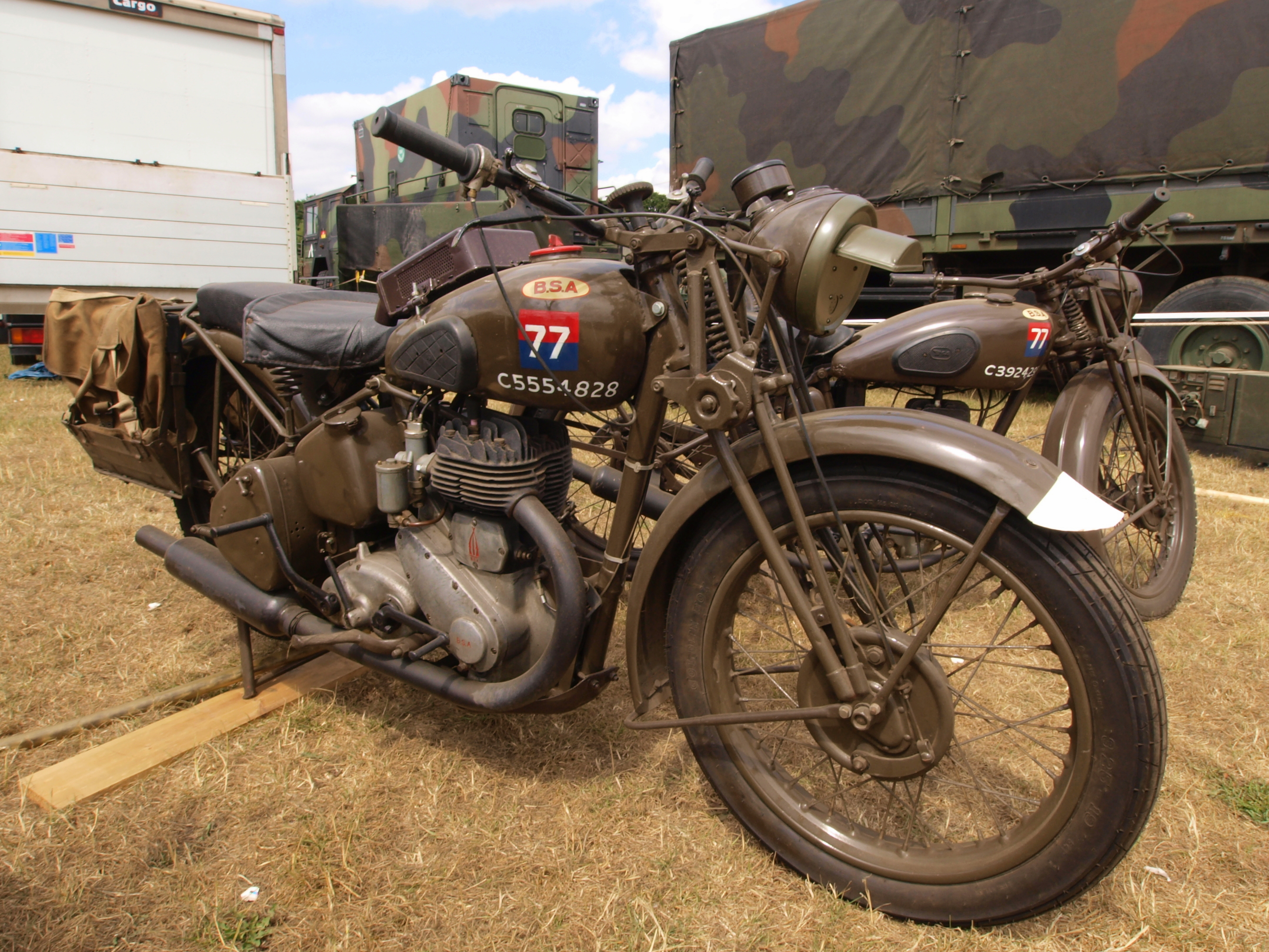 BSA M20 motorcycle at the War and Peace Show 2010 in Beltring, Kent